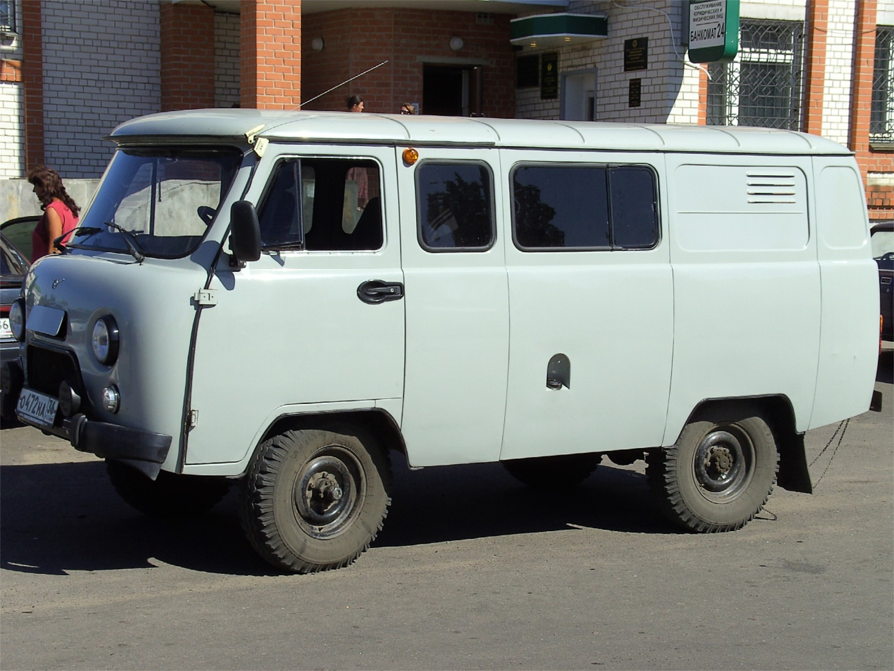 UAZ 3909 (modification of UAZ 452) in Novoanninsky, Russia